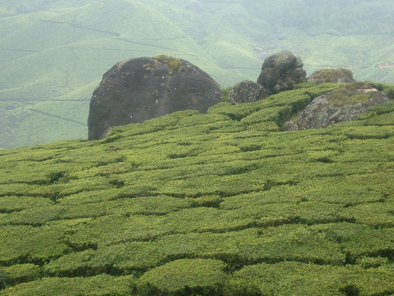 A tea plantation in Munnar